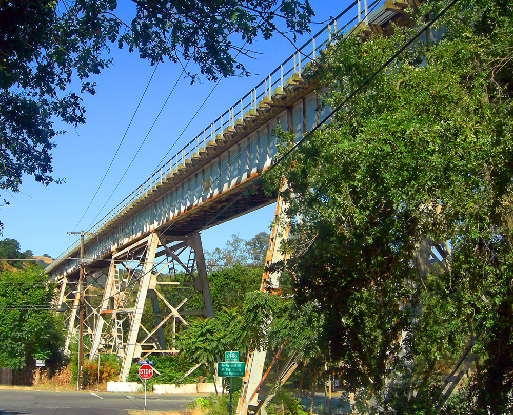 The 1680-foot-long, 80-foot high steel "Muir Trestle", a.k.a. "Alhambra Trestle", in Martinez, California, owned and operated by the BNSF Railroad. View from Muir Station Road looking toward Alhambra Way.